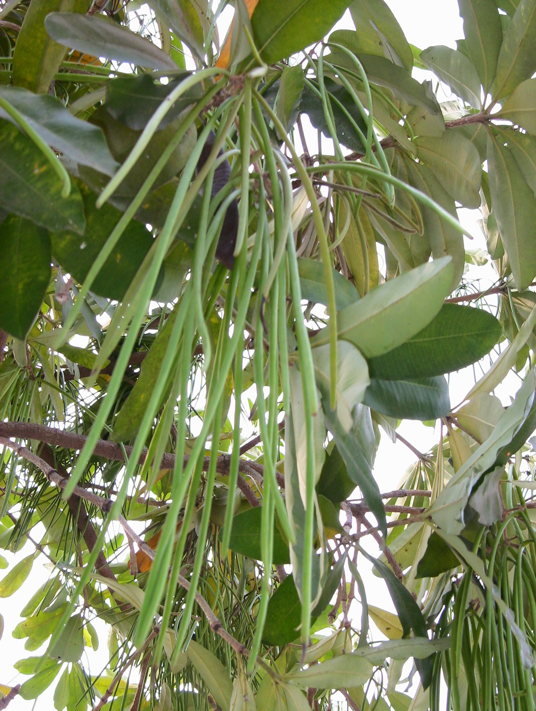 Fruits of Alstonia scholaris